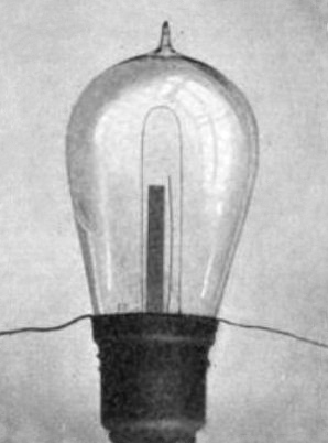 A replica of one of the bulbs with which Thomas Alva Edison discovered the Edison Effect (thermionic emission) in the early 1880s. Made by Clayton H. Sharp in 1921 as an experiment to see if Edison's bulb could be used like a Fleming valve as a detector in a radio receiver to rectify radio waves. It worked. It consists of an Edison incandescent light bulb, an evacuated glass bulb with a hairpin shaped bamboo carbon filament, with an additional platinum plate (visible between the arms of the filament) attached to wires emerging from the base of the bulb. A current through the filament heated it white-hot. Edison discovered that the hot filament emitted negatively-charged particles (later descovered to be electrons) an effect that was called the Edison effect. He demonstrated this by applying a separate voltage between the filament and plate. When the plate had a positive voltage, the electrons were attracted to it and a current flowed through the tube from filament to plate. When the plate had a negative voltage, the electrons were repelled so no current flowed through the tube. Edison found no practical use for this effect, but in 1904 John Ambrose Fleming invented a similar tube called the Fleming valve which was used to rectify radio signals in the first radio receivers, which evolved into the diode vacuum tube. Alterations to image: partially removed aliasing artifacts (crosshatched lines in background) due to scanning of halftone photo using FFT filter in GIMP.